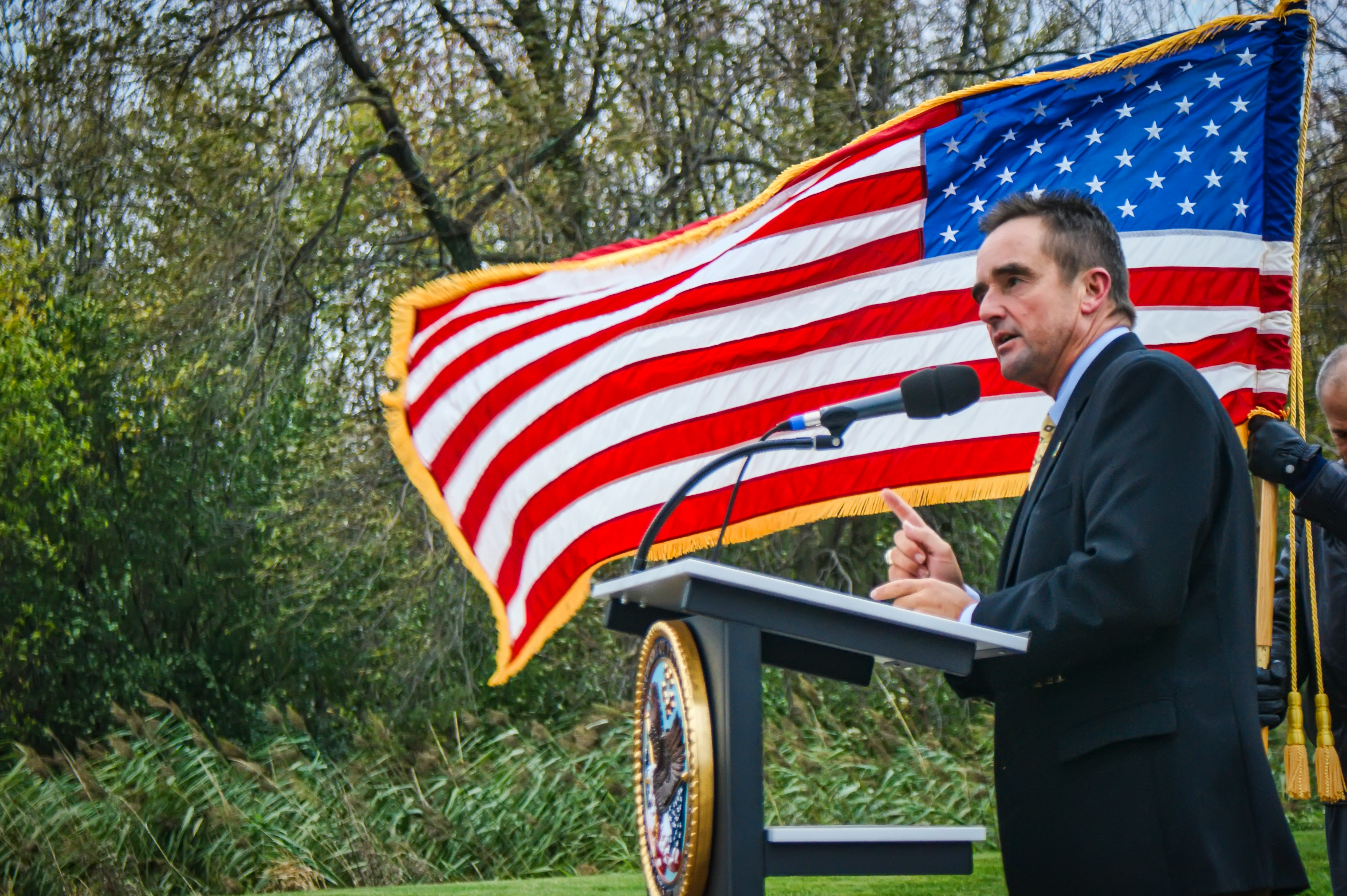 On October 20, 2011 a groundbreaking ceremony was held for the beginning work of the Department of Veterans Affairs Milo C. Huempfner Green Bay Clinic. Mayor Jim Schmitt was one of the speakers at the groundbreaking.